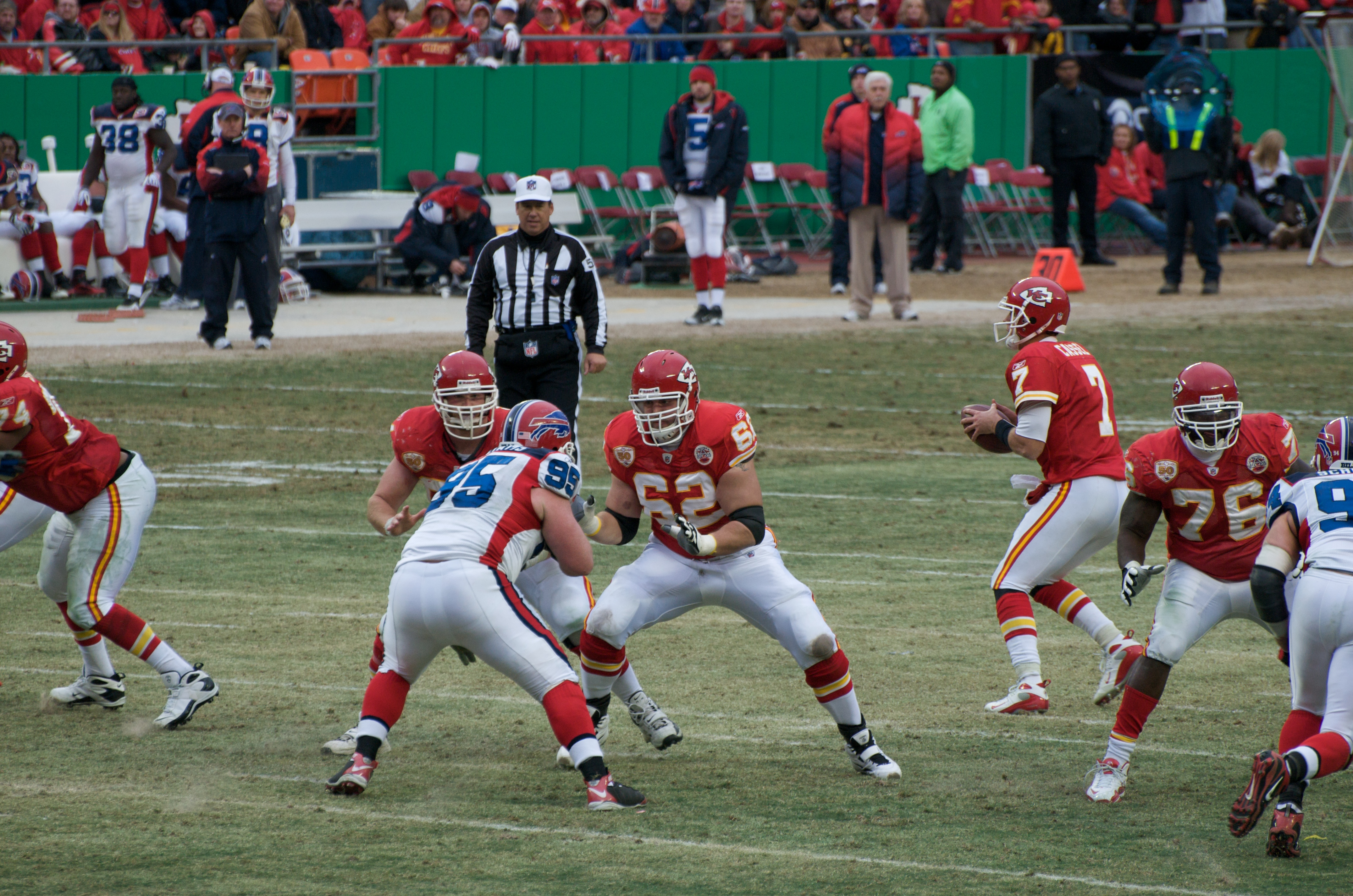 Andy Alleman (#62), Branden Albert (#76), and Rudy Niswanger of the Kansas City Chiefs blocks for Matt Cassel (#7) in a game against the Buffalo Bills at Arrowhead Stadium on December 13, 2009